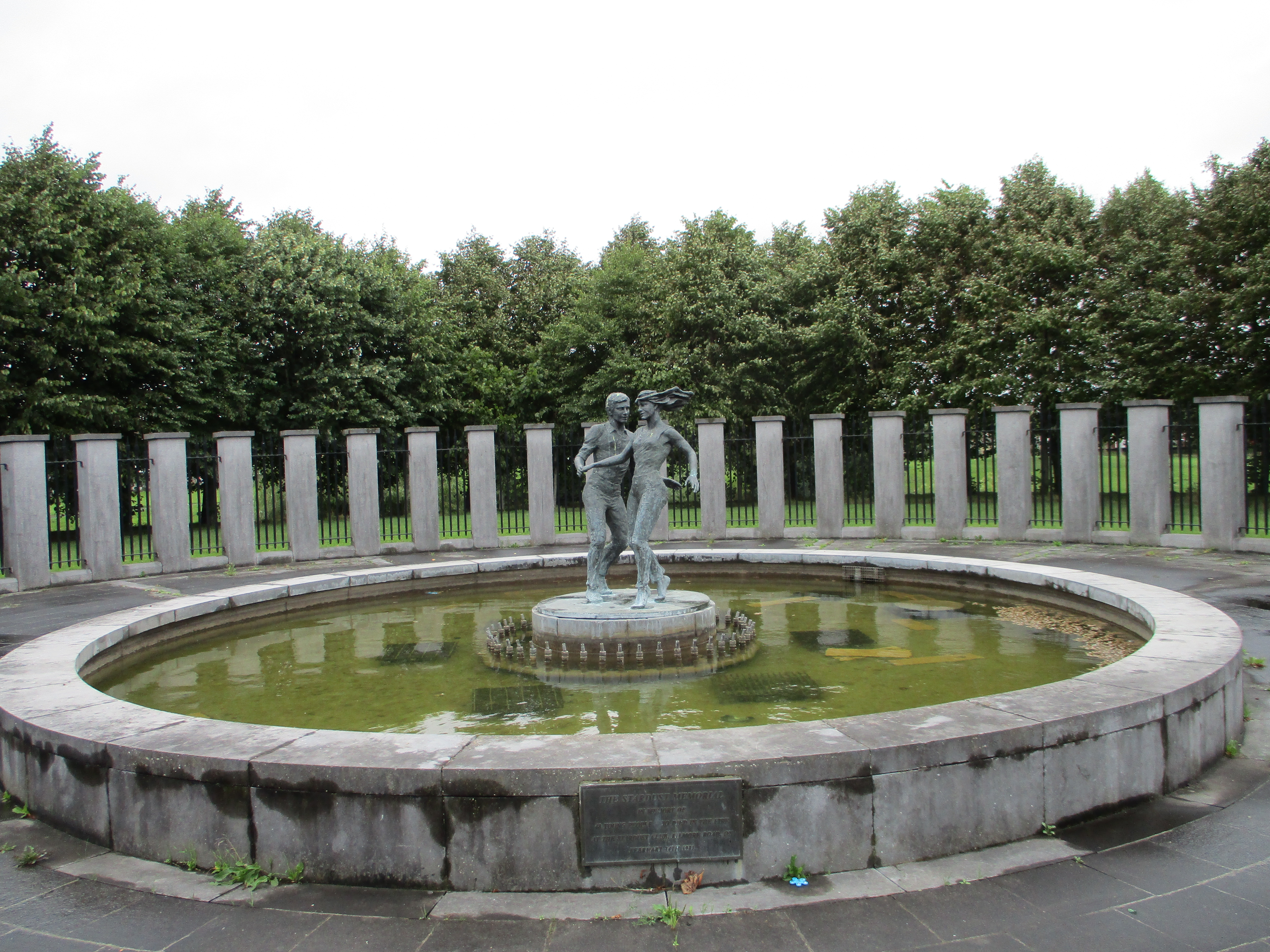 Dancing Couple sculpture in Stardust Memorial Park, Coolock, Dublin